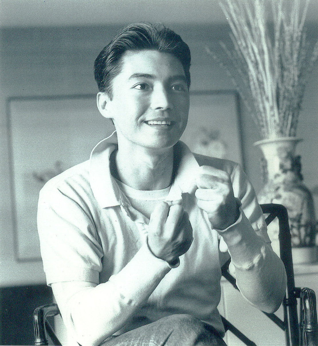 Actor John Lone in San Francisco, 1984, promoting his film, "Iceman."